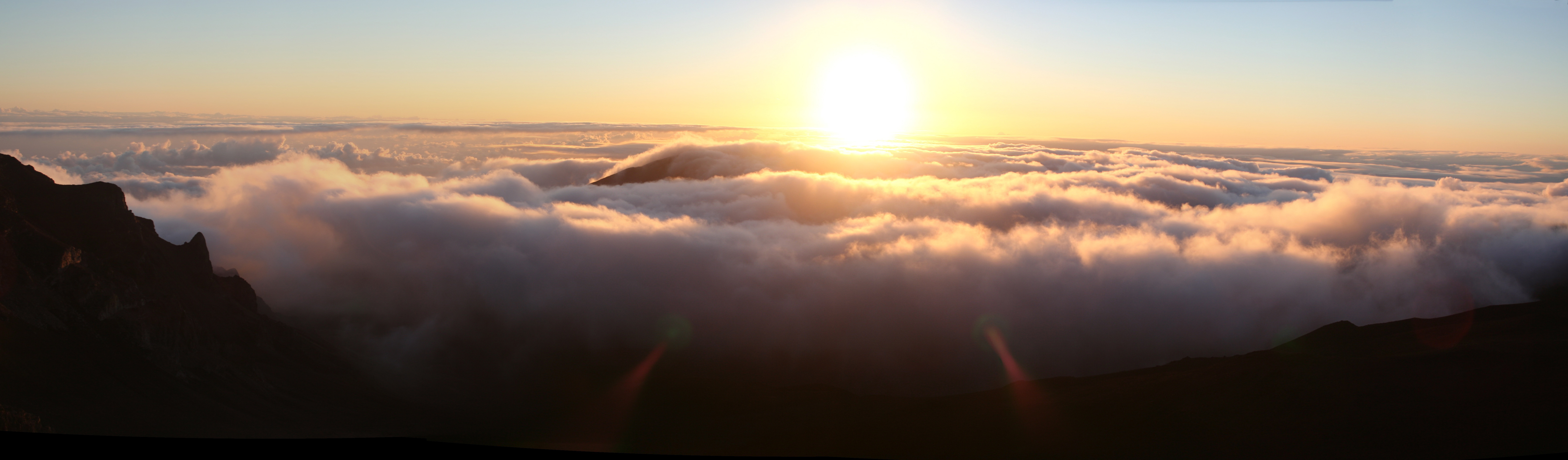 The sun rises from the clouds over Maui, taken from the peak of Haleakala